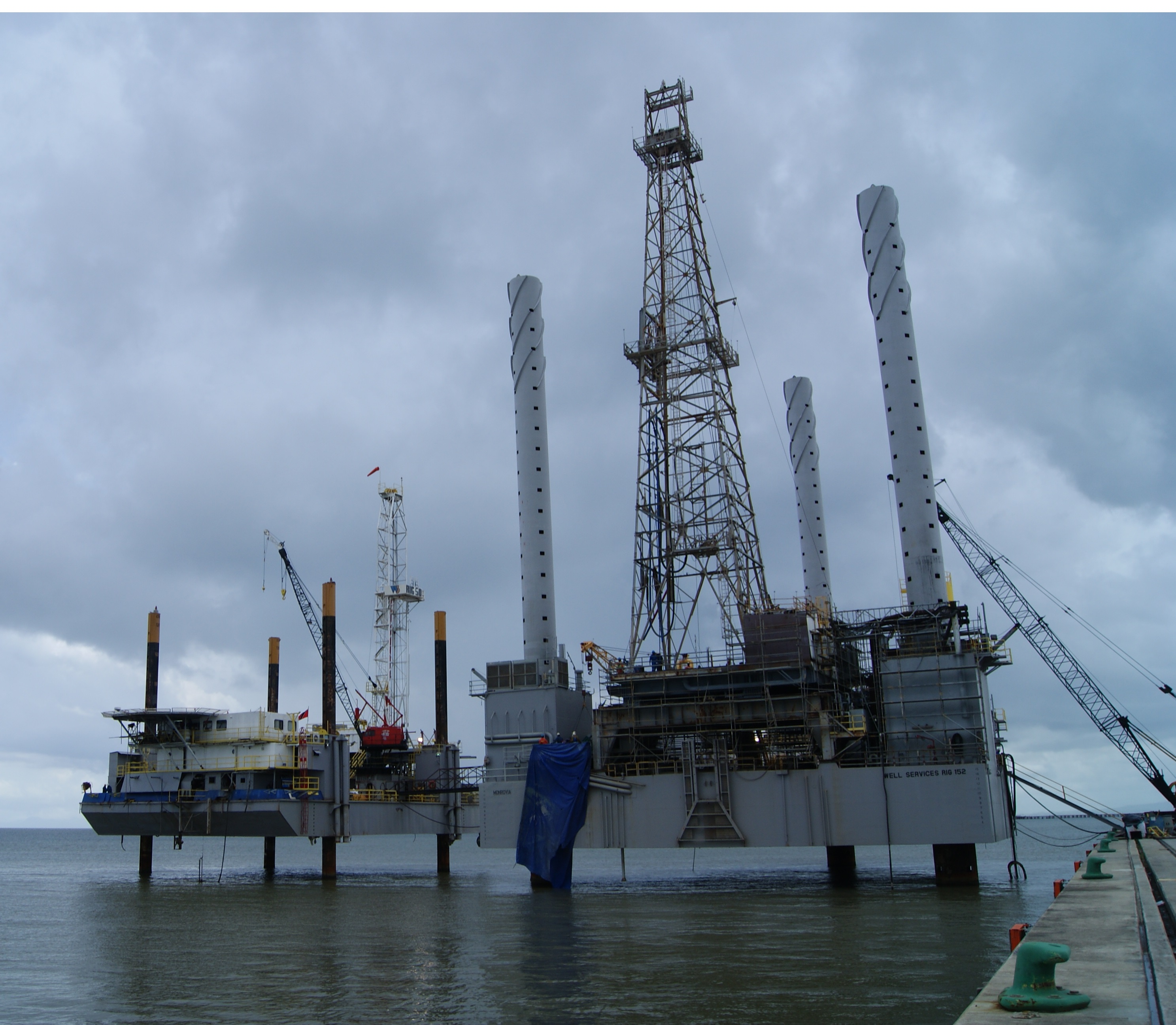 An oil platform off the coast of Trinidad.